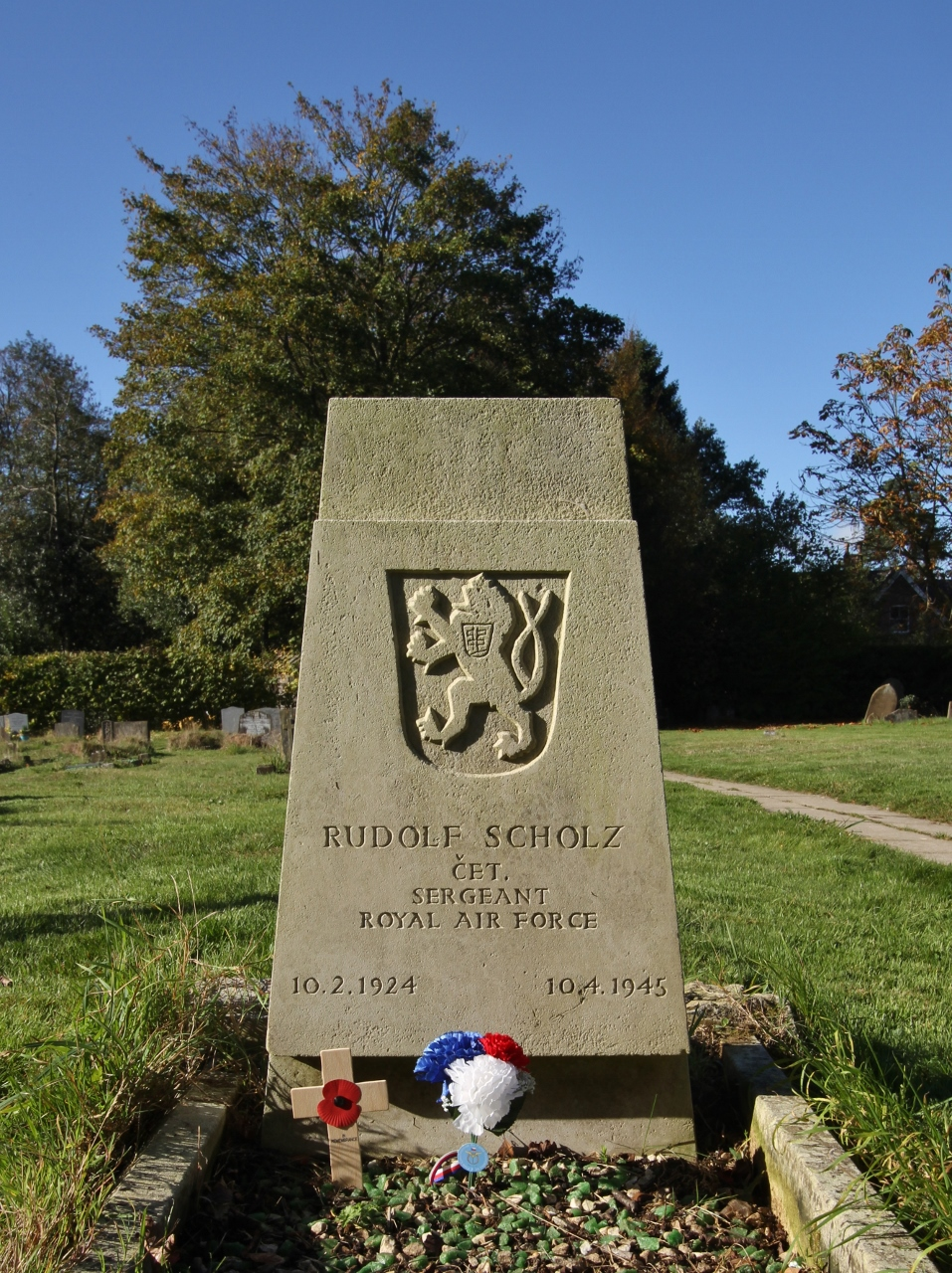 Headstone in the parish churchyard of St John the Evangelist, Stoke Row, Oxfordshire, of Sgt (flight engineer) Rudolf Scholz, 311 Sqn, RAF Volunteer Reserve, who was killed in an accident on 10 April 1945, aged 21